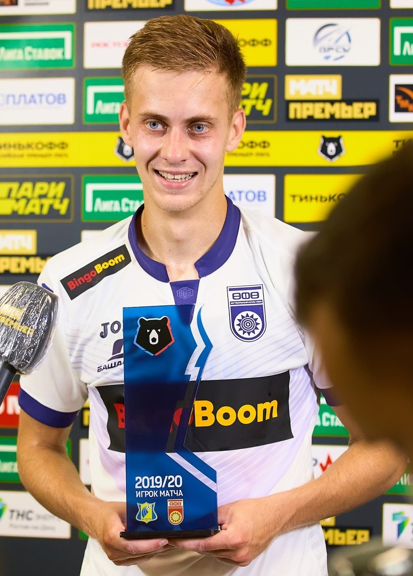 Danill Fomin with Player of the match award he received for FC Ufa in a game against FC Rostov.